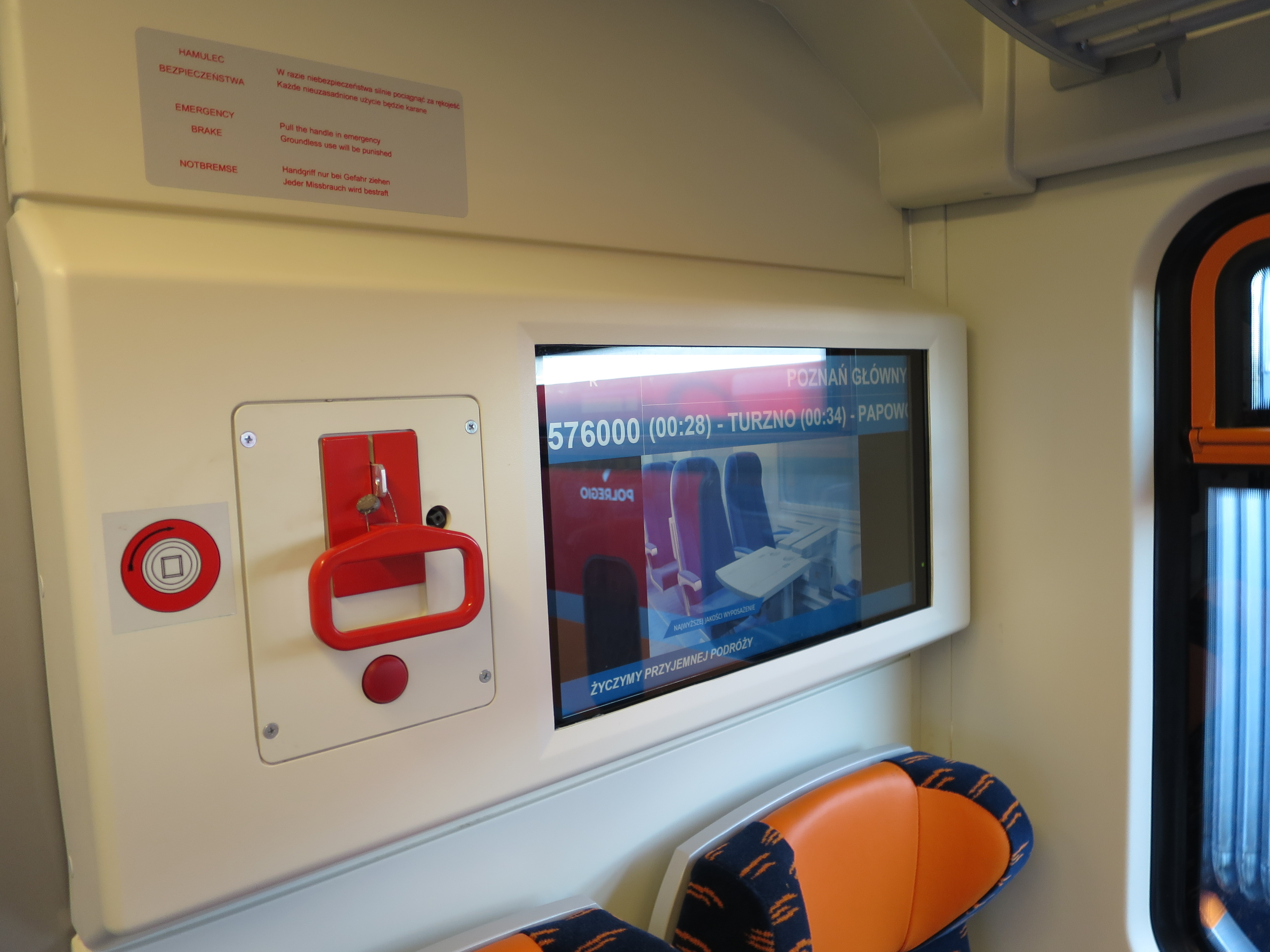 The making of this document was supported by Wikimedia Polska Association, within Wikigrant no. WG 2017-44. EN57FPS